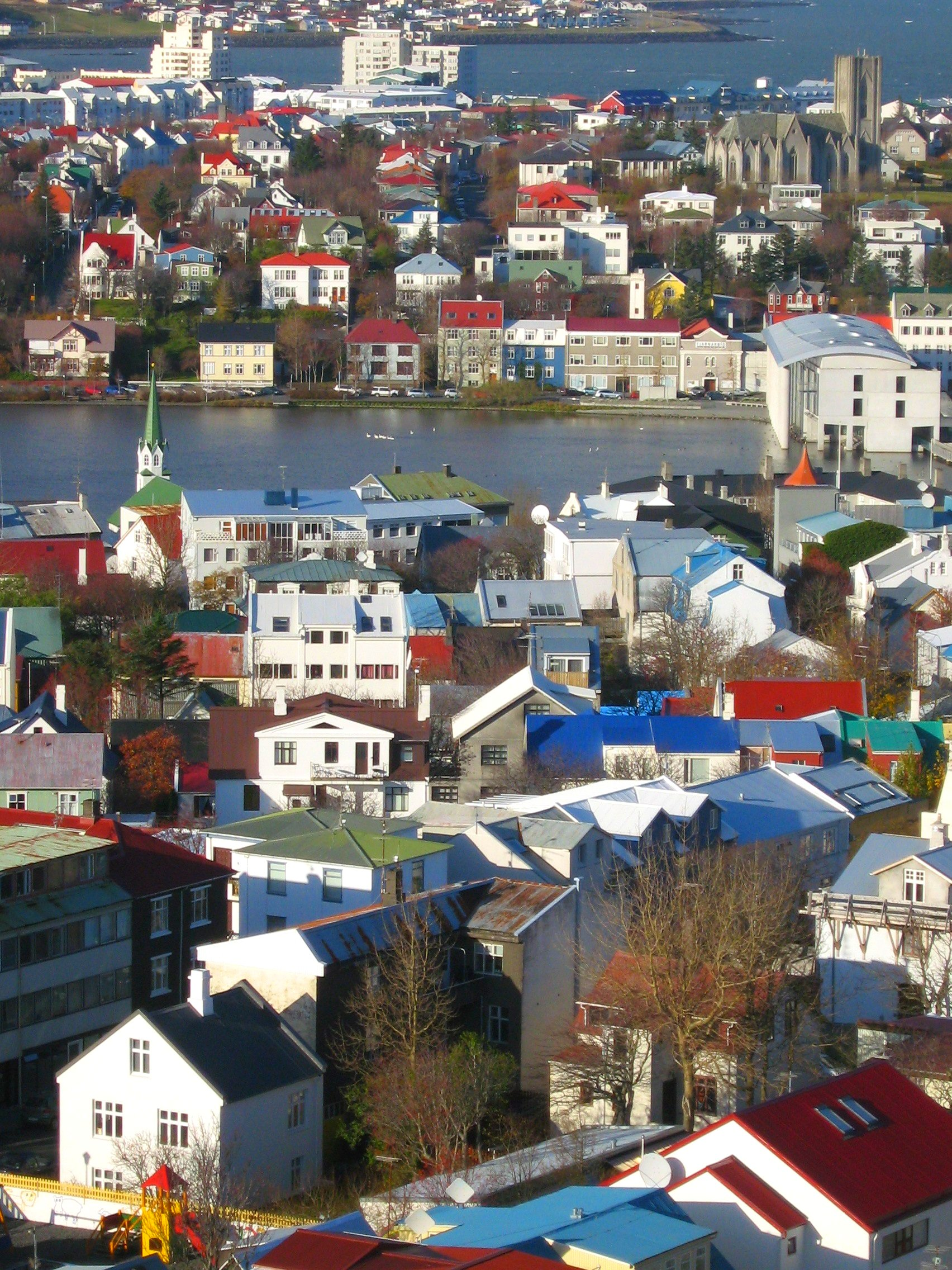 Reykjavík, A view over part of the old town in Reykjavík, with the pond Tjörnin in the centre. Location: Reykjavík